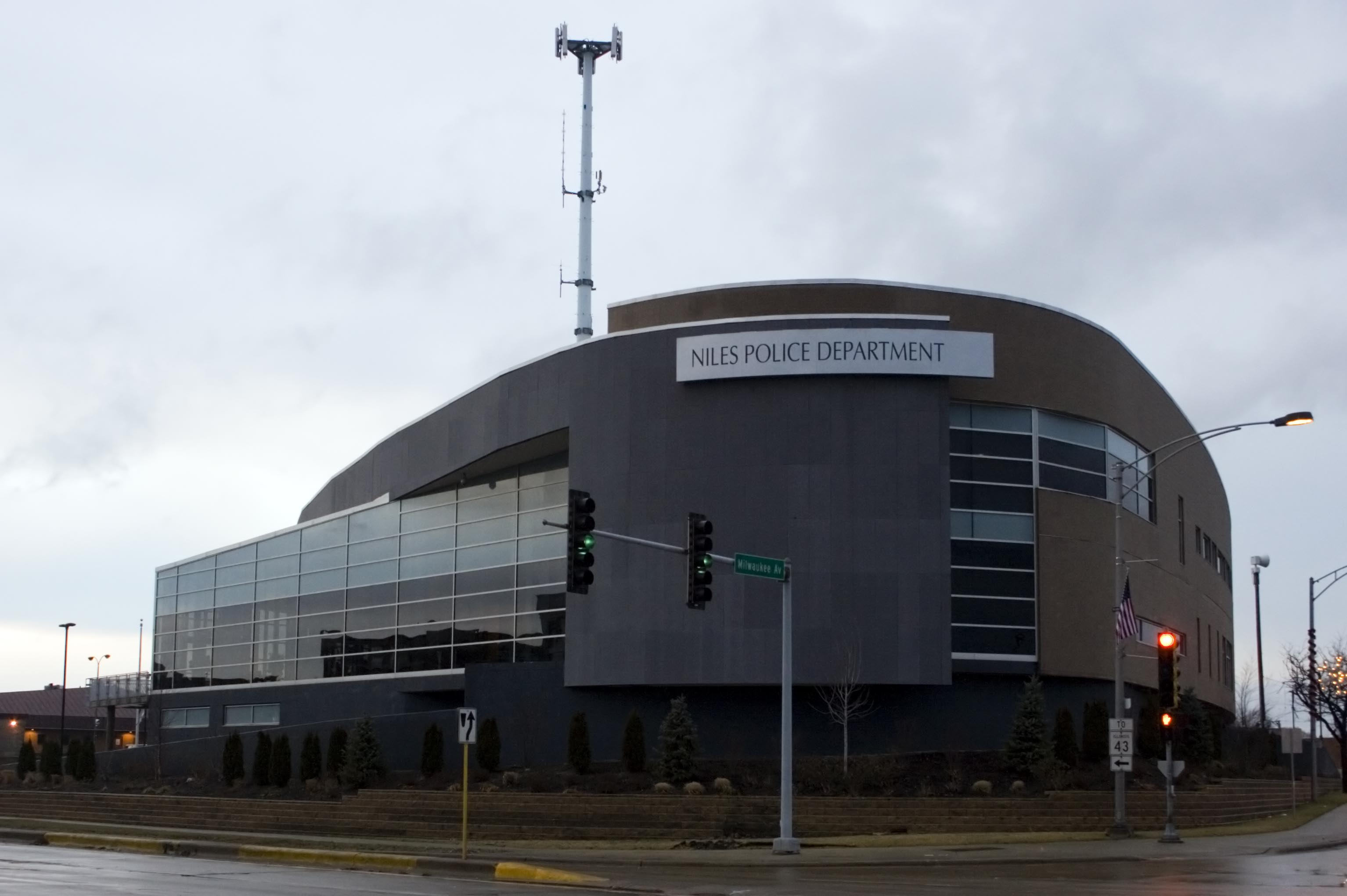 The headquarters building of the Niles Police Department headquarters building in Niles, Illinois.